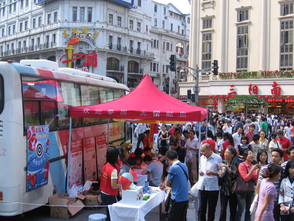 BloodDonationBus-EastNanjingRd_Shanghai20091003,Blood donation campaign beside the bus.